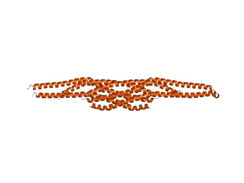 Cartoon representation of the molecular structure of protein registered with 1wdz code.